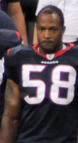 Isaiah Greenhouse.